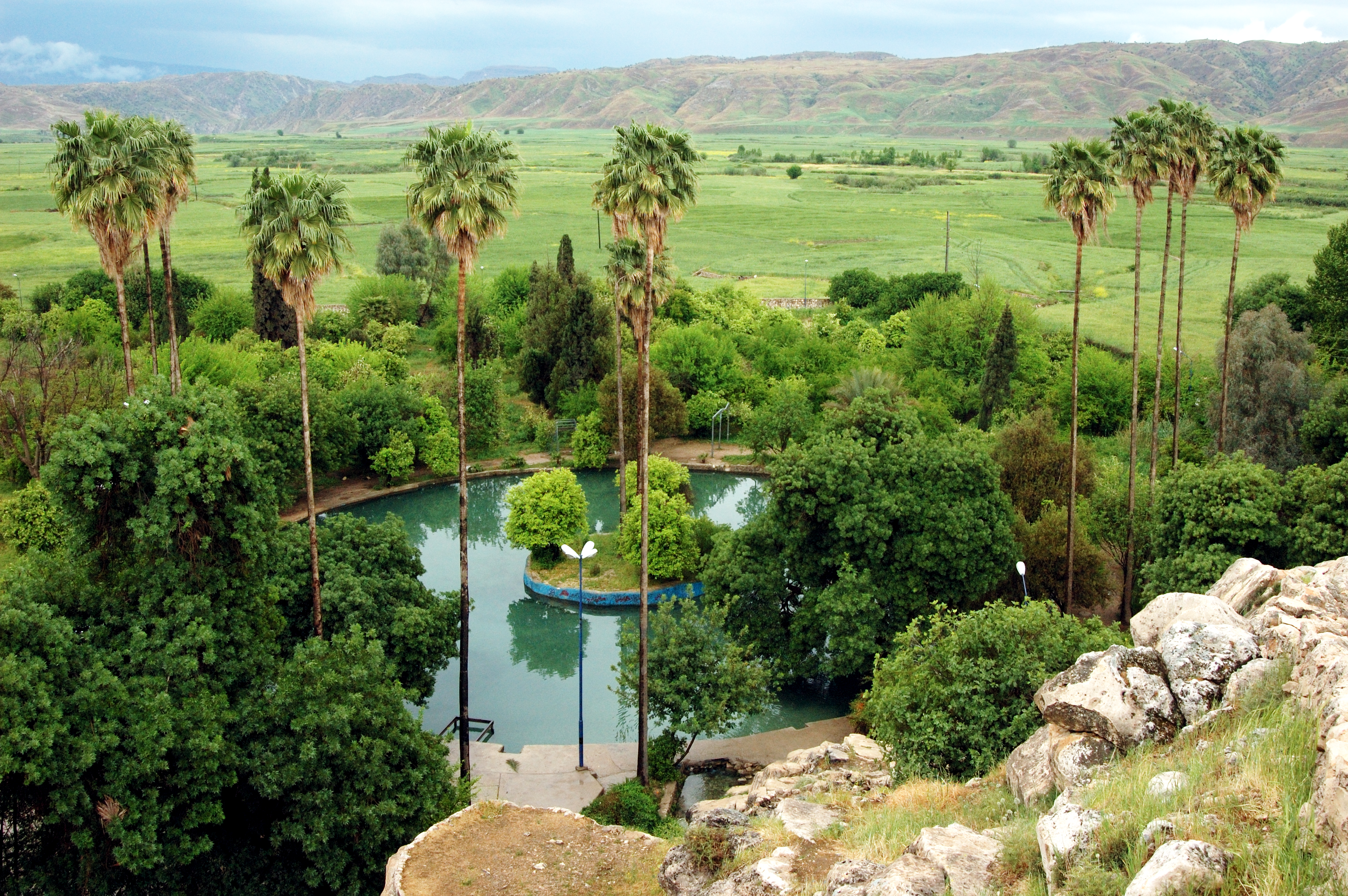 cheshme belgheis garden